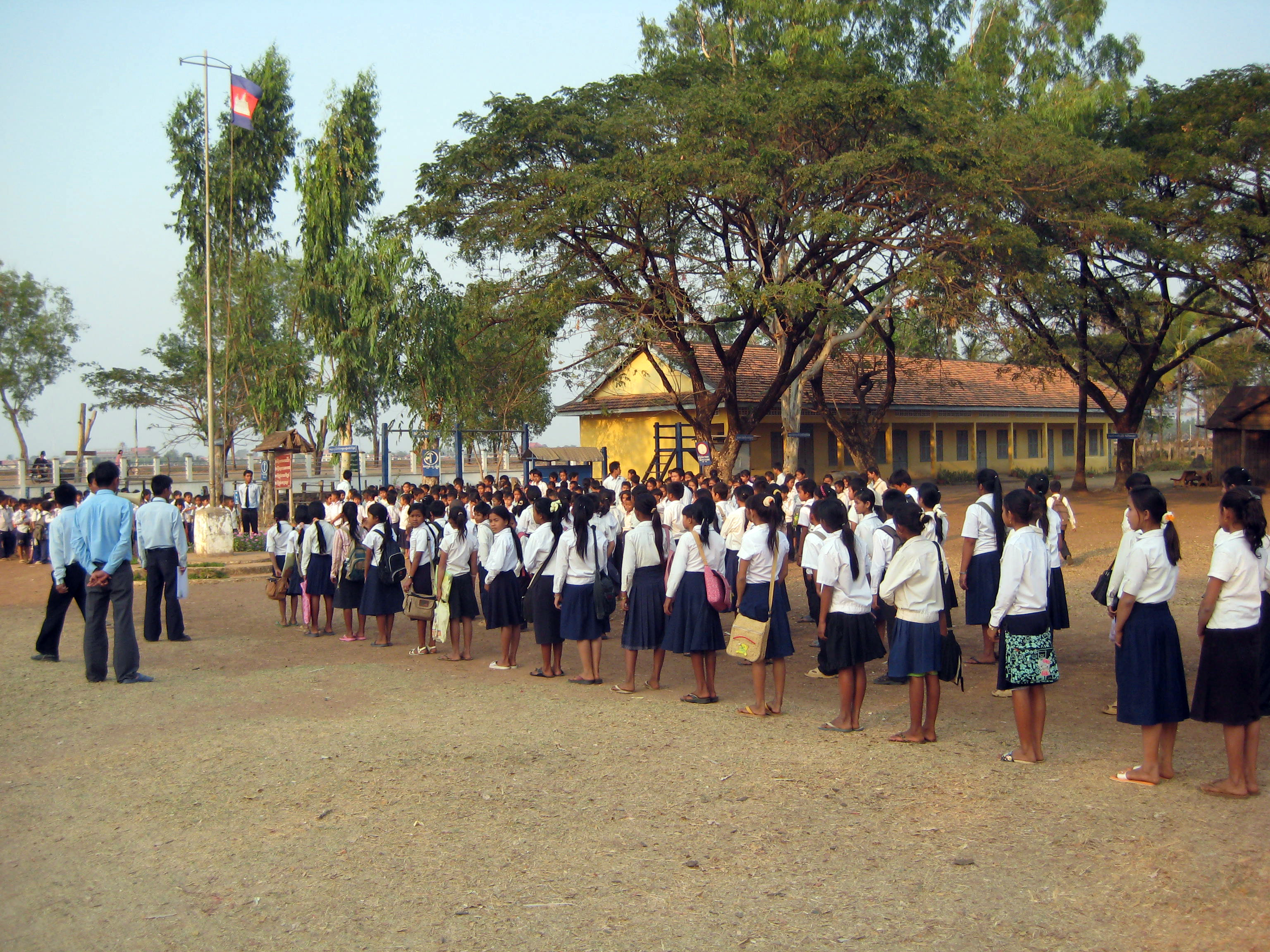 The school yard in an elementary school in Samraong, Oddar Meancheay Province, Cambodia